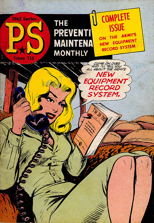 Title: PS Magazine Cover page Creator and Illustrator: Eisner, Will; United States. Dept. of the Army Rights: This item is in the public domain. Acknowledgement of the Virginia Commonwealth University Libraries as a source is requested. Collection: Reference URL